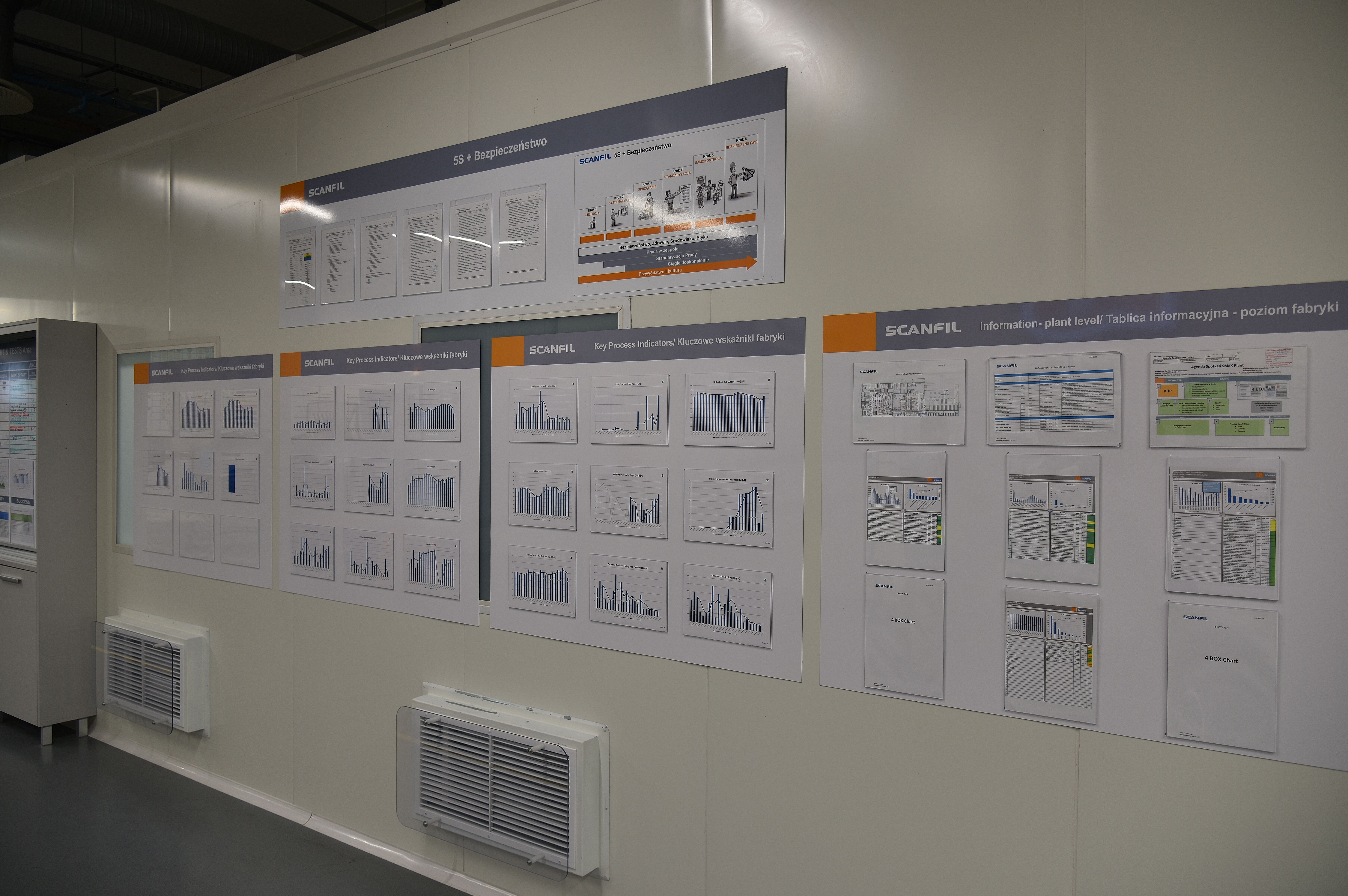 KPI information boards at the Scanfil Poland factory in Sieradz